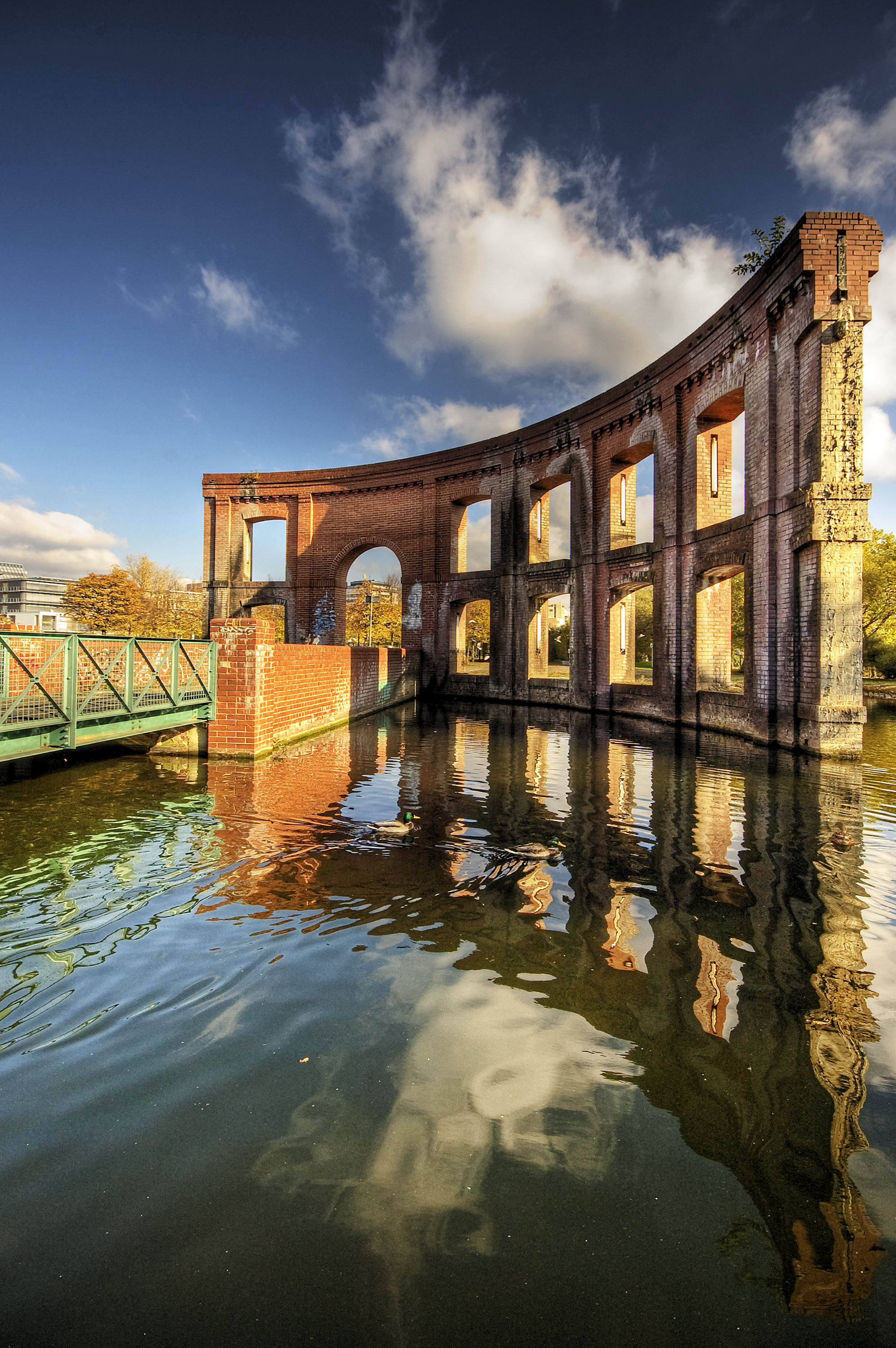 Bürgerpark (central park), SaarbrückenBürgerpark II